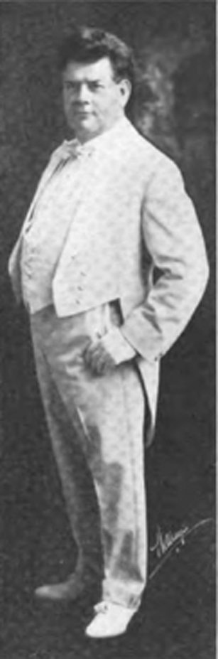 Charles W. Clark seek comfort in the latest continental dress suit creation and a glimpse of his adoption of the celebrated Mark Twain hobby for "angelic adornment in robes of white"